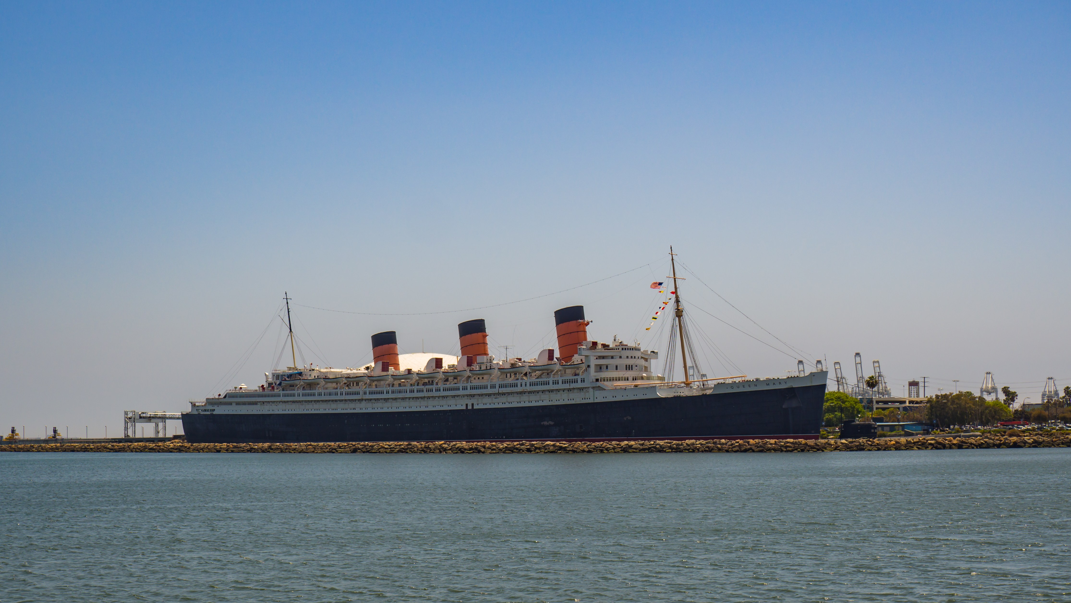 The Queen Mary sailed the Atlantic route between 1936 to 1967 for the Cunard Line (formerly White Star Line), before being permanently moored in Long Beach, CA. Once aircraft eventually became the norm for Atlantic crossings, the vessel has become a hotel and tourist attraction for Long Beach and remains one the city's most famous landmarks. These views were captured on a boat tour that took in the Long Beach Harbour.